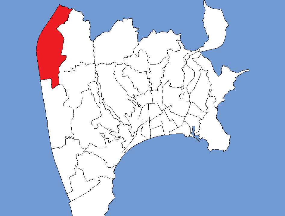 Location of the neighbourhood Lingostiere in Nice